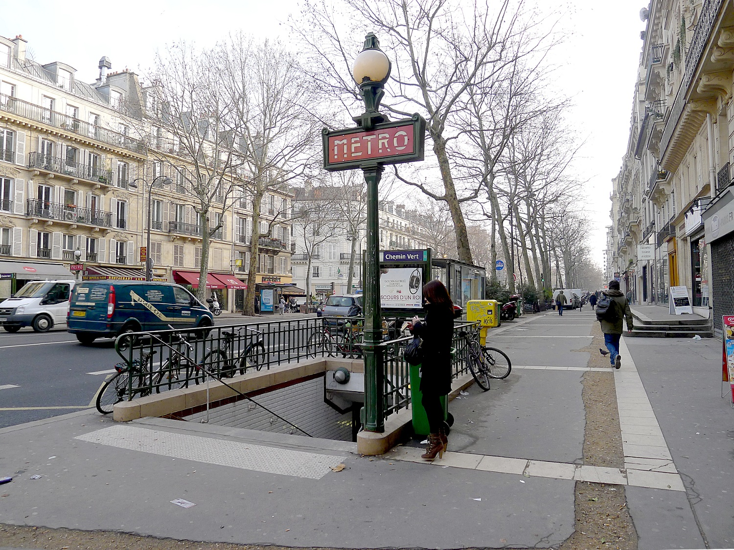 Metro chemin vert- Beaumarchais Boulevard - Paris